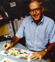 Jack Elrod working on the comic Mark Trail. This photo was taken by the US Fish and Wildlife Service.